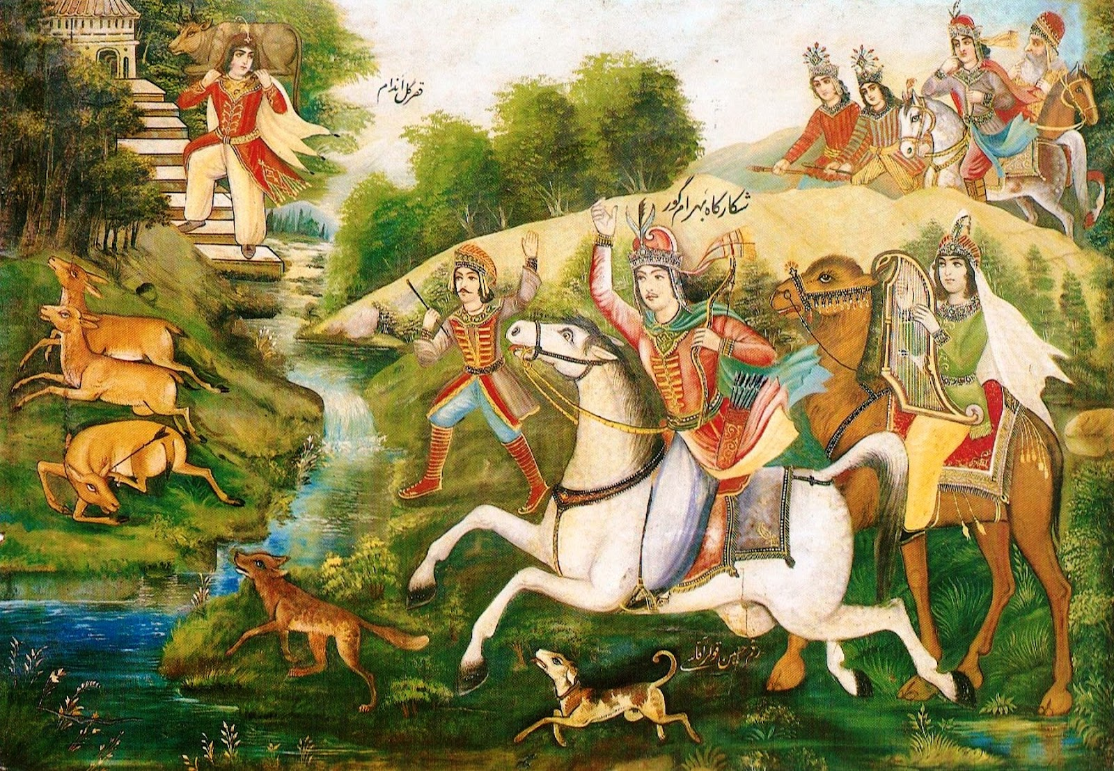 Modern illustration of the Sasanian shah Bahram V Gur hunting at the palace of Gol-andam.